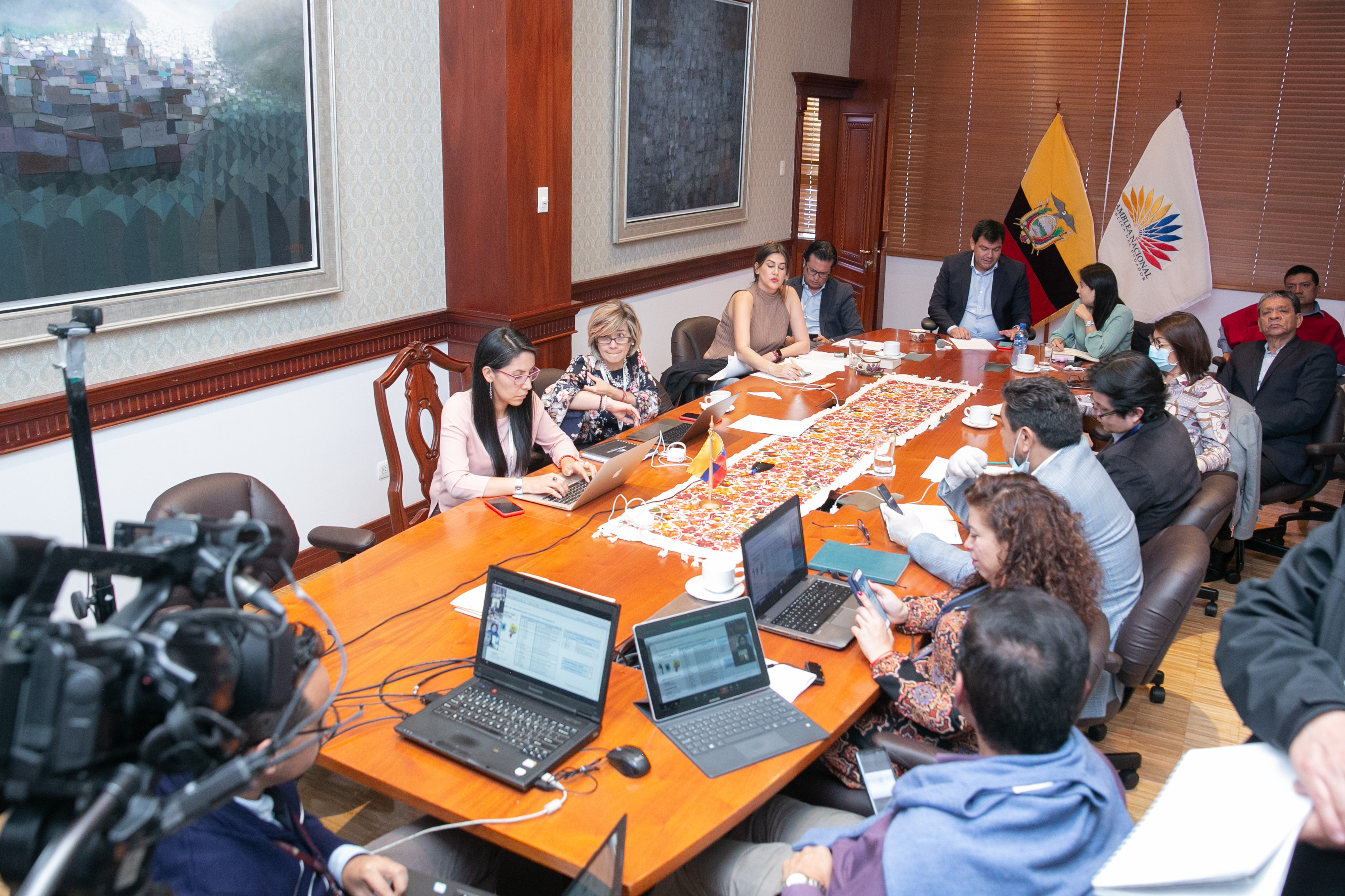 Quito, 16 de marzo 2020.- Presidente de la Asamblea Nacional, César Litardo mantuvo reunión con la Ministra de Salud, Catalina Andramuño y asambleístas de diferentes bancadas. Fotos: Alexander Moya / Asamblea Nacional